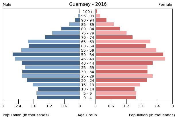 The population pyramid of Guernsey illustrates the age and sex structure of population and may provide insights about political and social stability, as well as economic development. The population is distributed along the horizontal axis, with males shown on the left and females on the right. The male and female populations are broken down into 5-year age groups represented as horizontal bars along the vertical axis, with the youngest age groups at the bottom and the oldest at the top. The shape of the population pyramid gradually evolves over time based on fertility, mortality, and international migration trends.